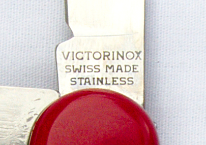 "Swiss made" engraving on a Victorinox Swiss army knife, model 'Tinker'.